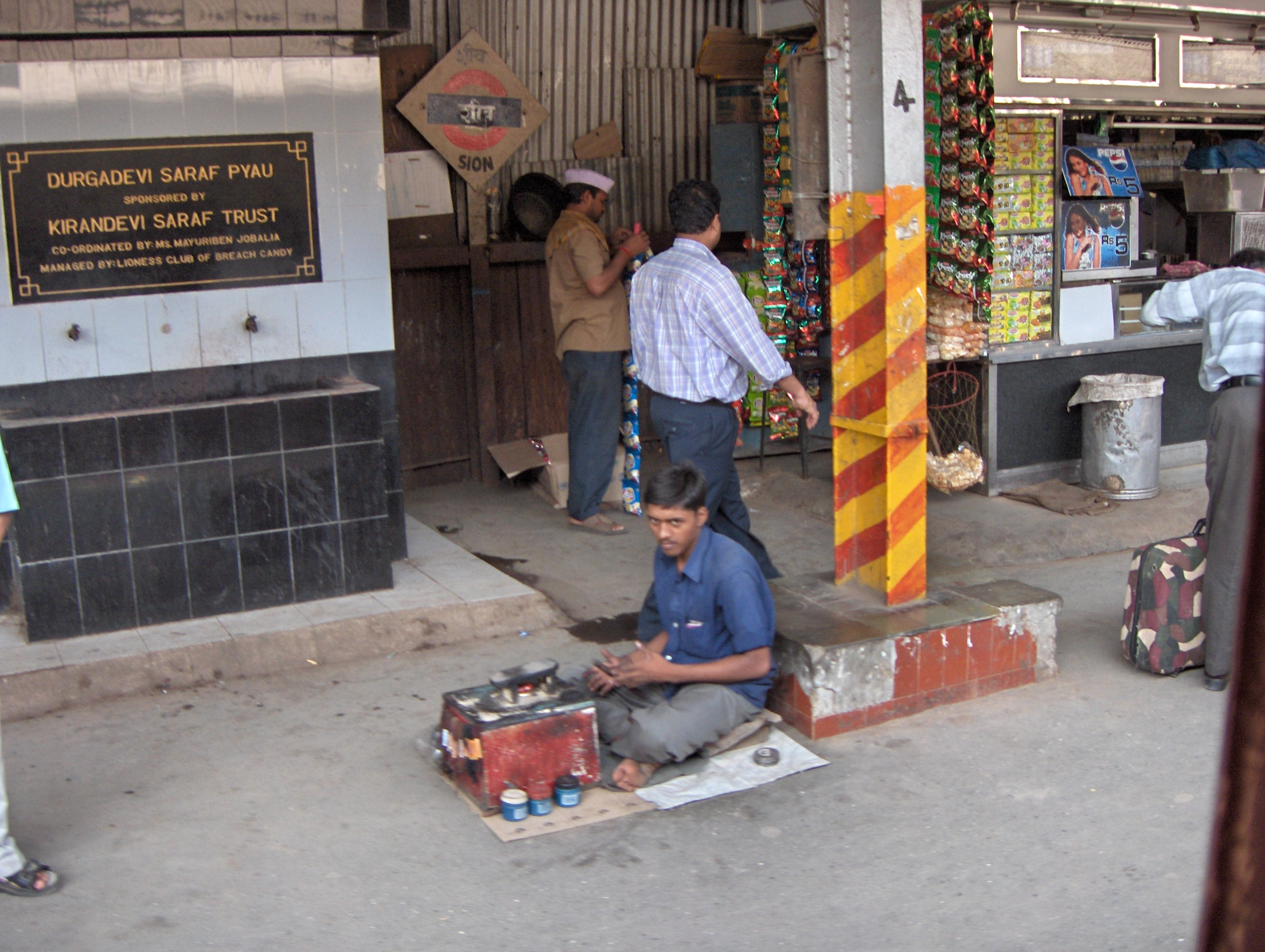 A shoe shine guy on the Sion railway station in Mumbai, India Picture taken by me, Nichalp on 9-Nov-2005